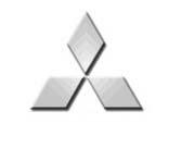 Mitsubishi logo